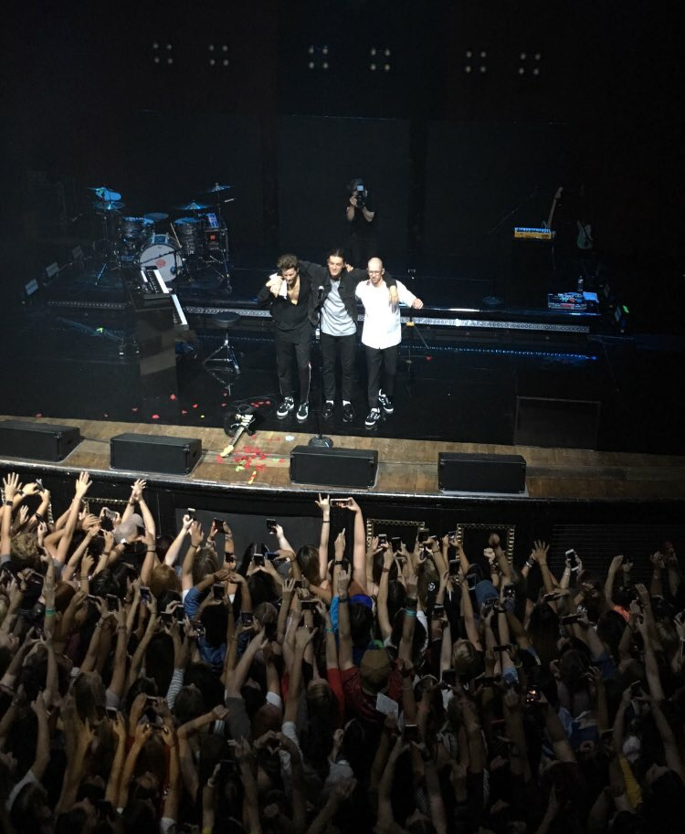 LANY at the House of Blues in Dallas, Texas on September 28, 2017.